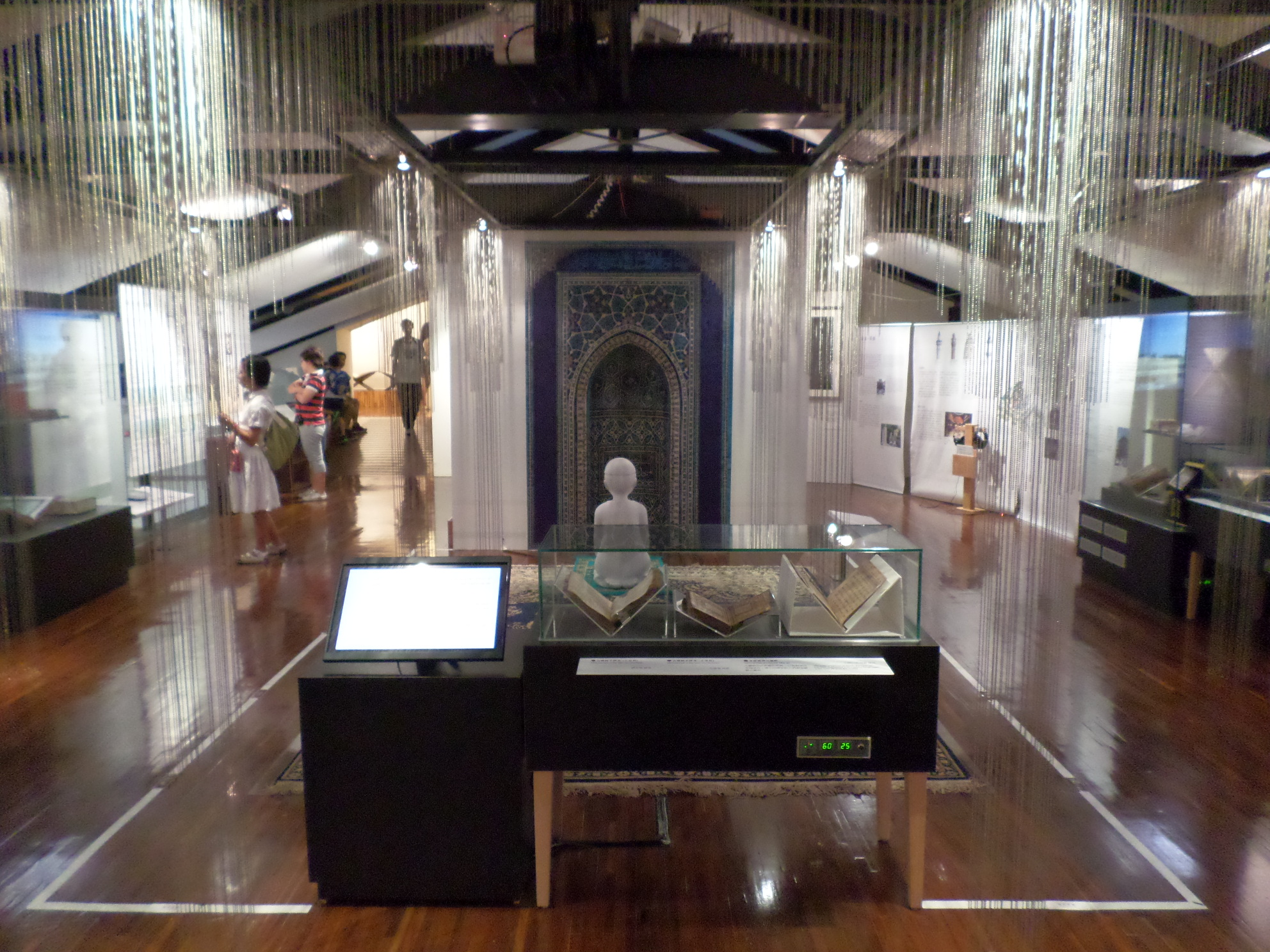 The Exhibition of Islamic Life and Culture @ National Taiwan Museum, Zhongzheng District, Taipei City, Taiwan